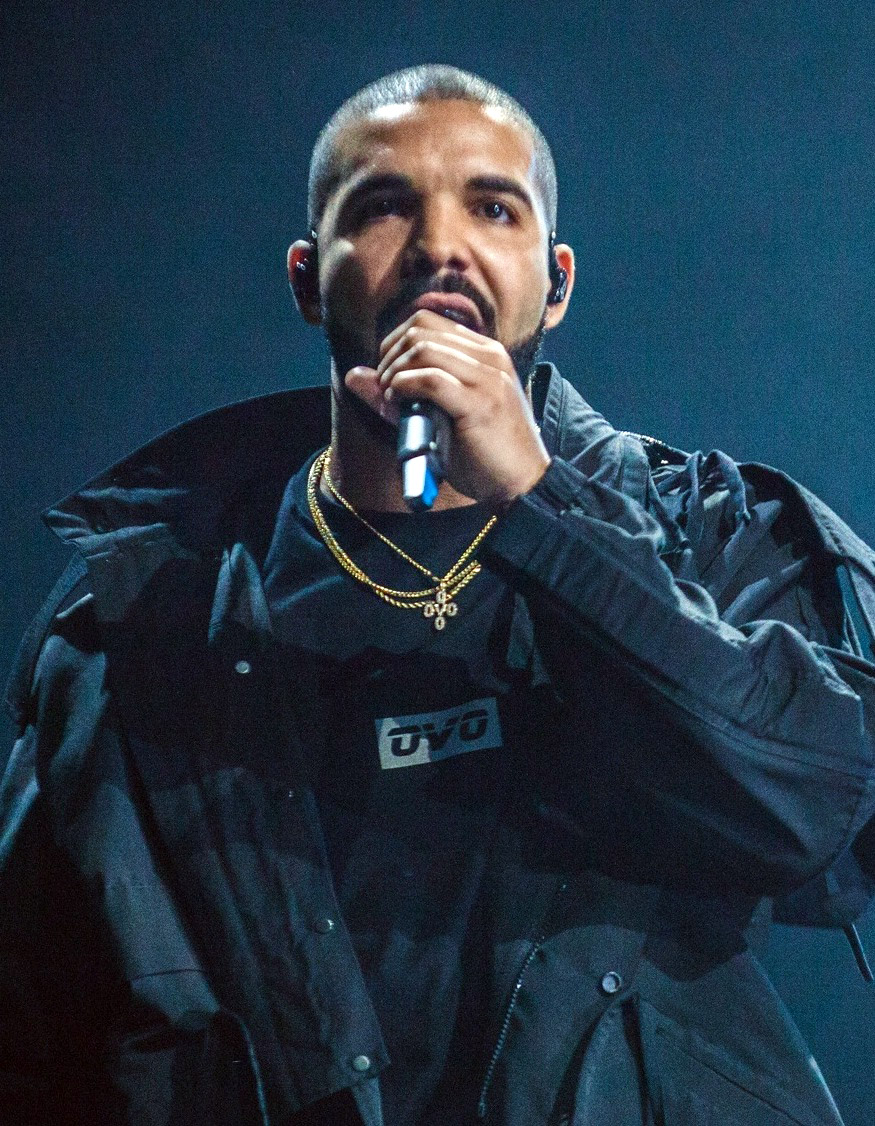 Drake performing in July 2016